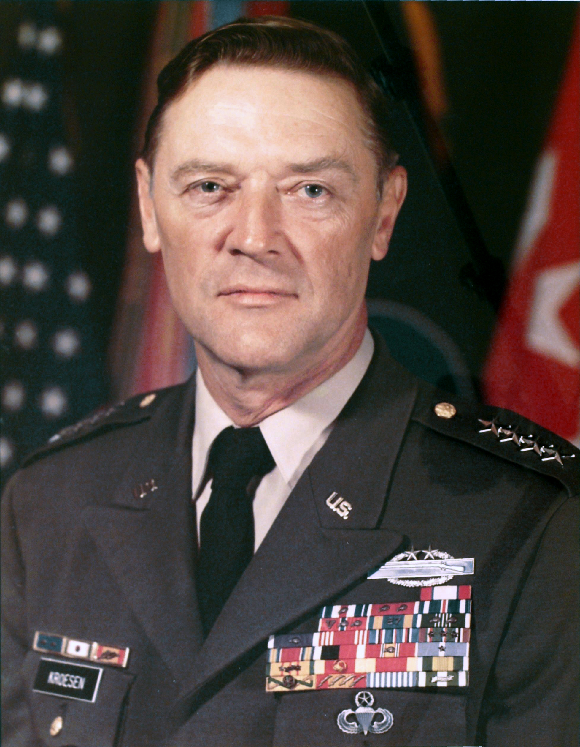 Photo of General Richard J. Kroesen Jr. as FORSCOM Commander.